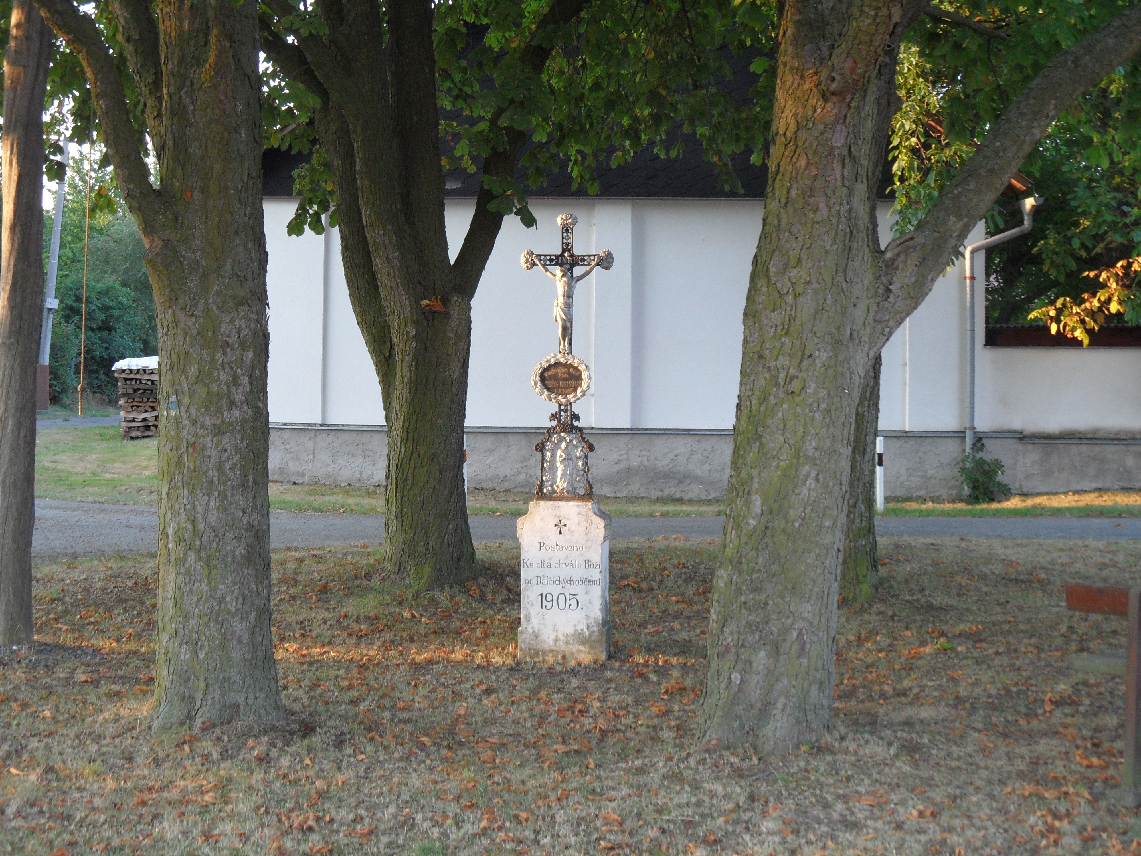 Dálčice I. Crucifix among Trees. Havlíčkův Brod District, the Czech Republic.